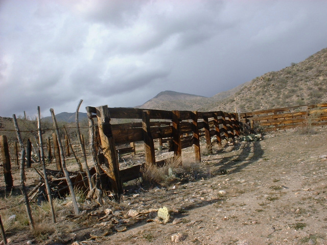 Old corral at Tip Top, Arizona. Photo by Rod Fitzhugh of